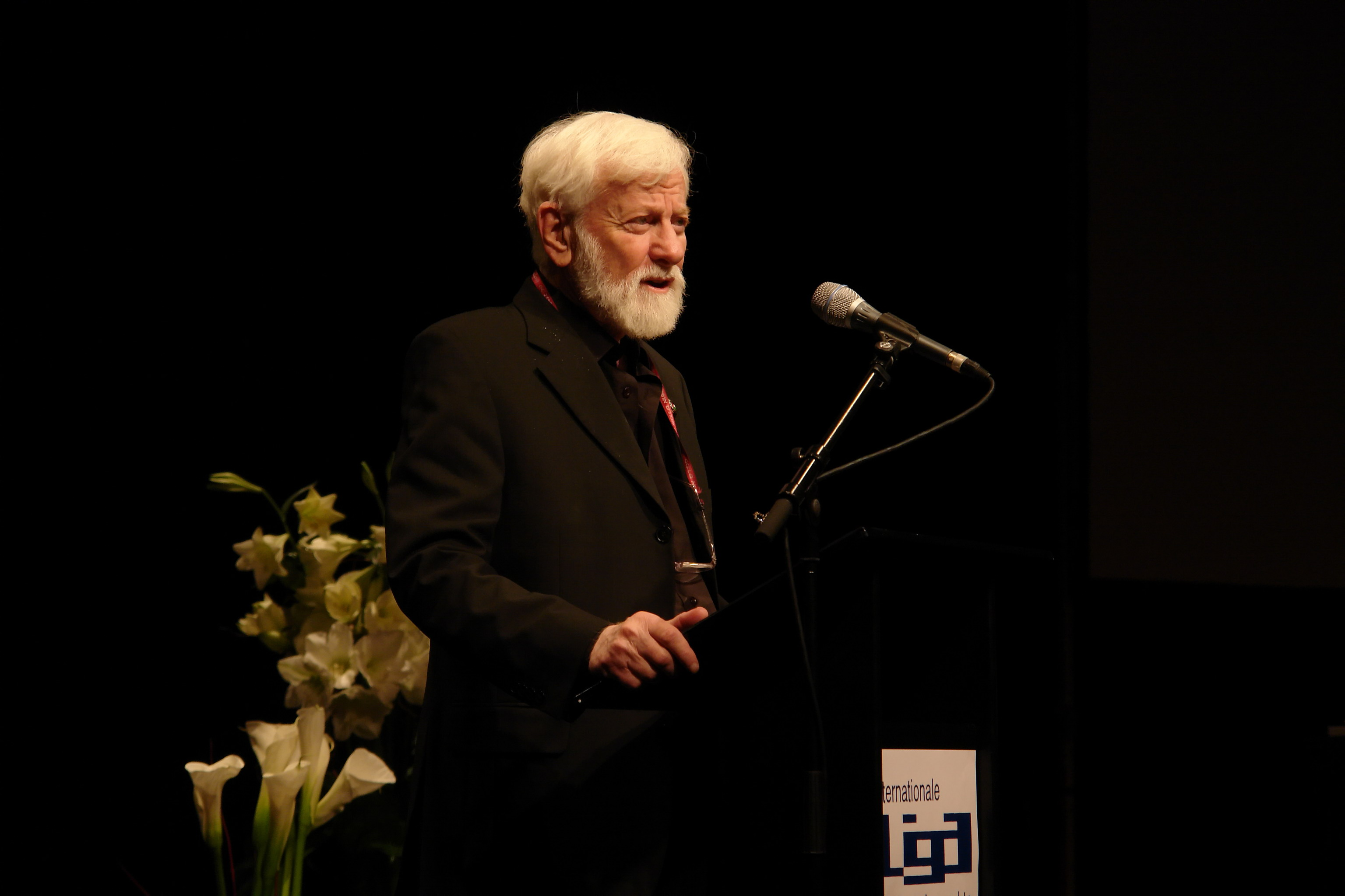 Uri Avnery delivering the guest of honour speech at the ceremony for the conferment of the Carl von Ossietzky Medall 2008.